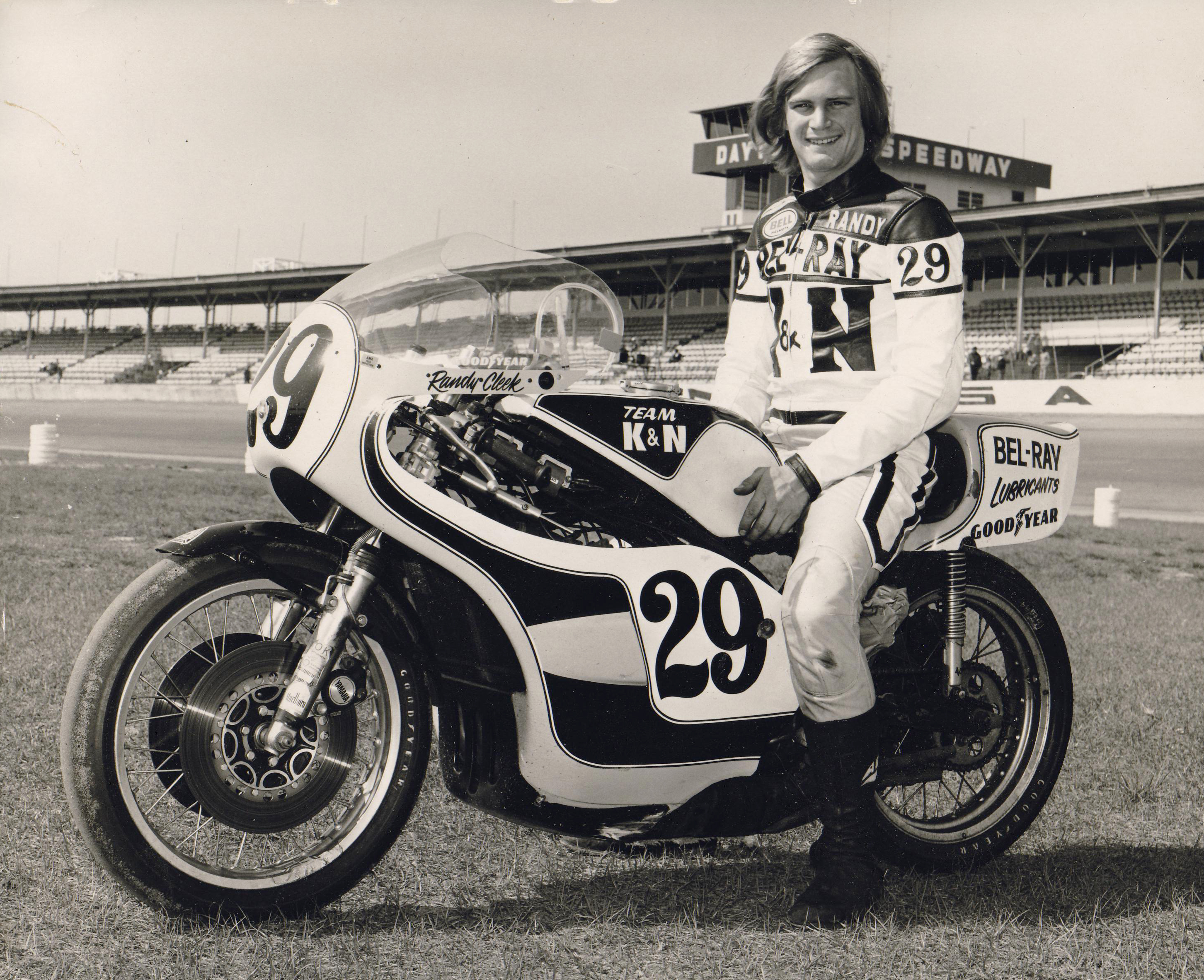 Randy Cleek American motorcycle racer at the 1975 Daytona 200